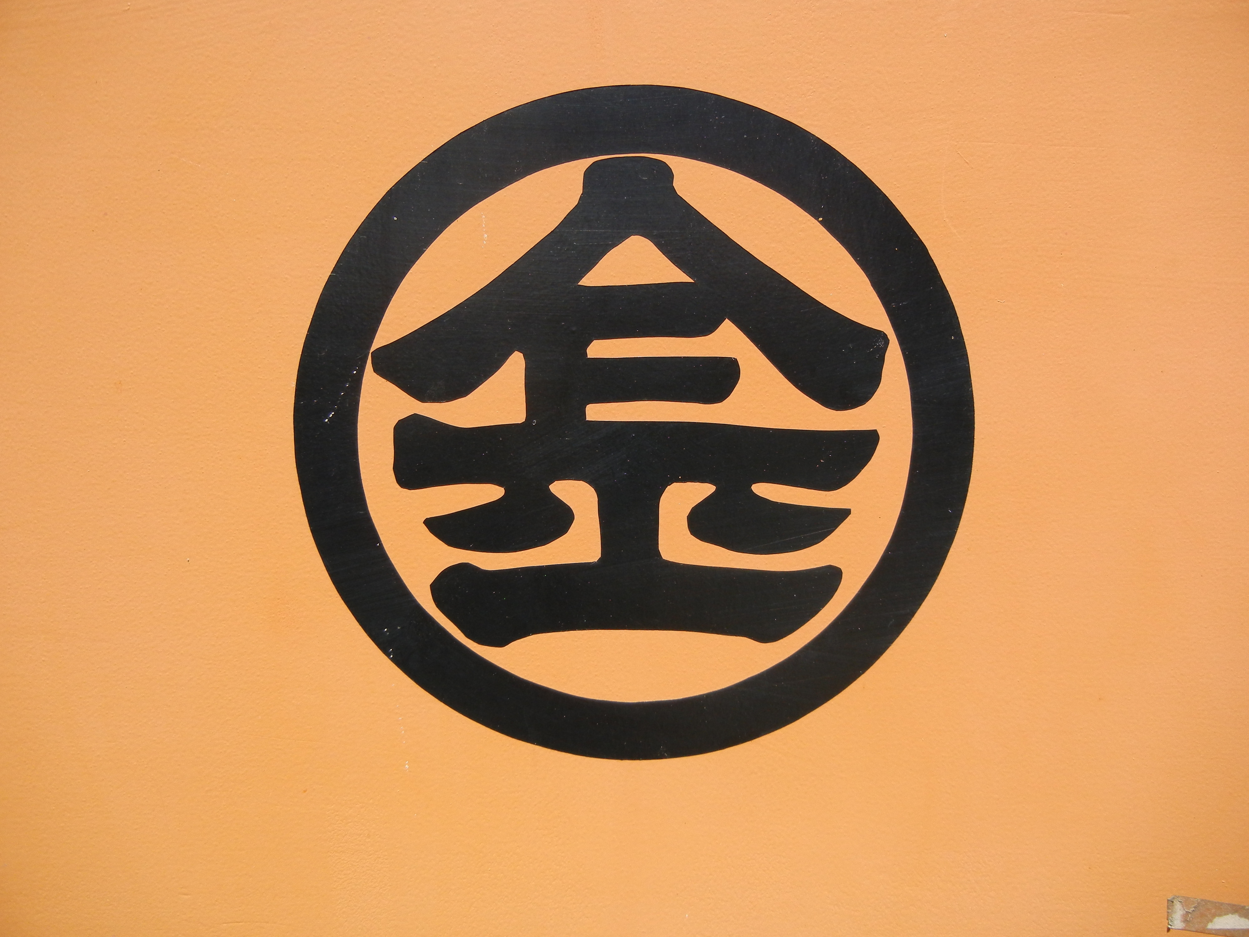 Sign of Kotohira Jinja